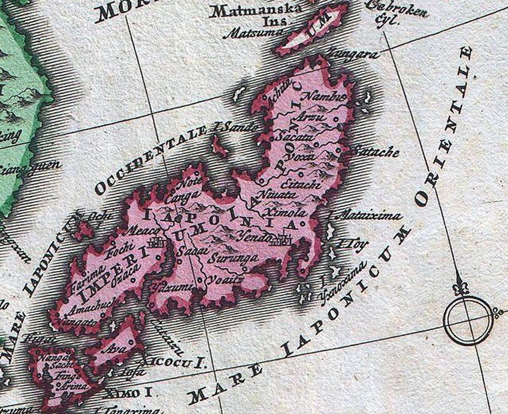 A part of the 18th century Homann Map of Asia with Japan (Iaponia), circa 1730. The Empire of Japan was called Imperium Iaponicum (latin name). The capital city Kyoto was Meaco. Edo was Yendo, Osaka was Ozaca. The Sea of Japan was called Mare Iaponicum Occidentale (West Sea of Japan). The Pacific Ocean side of Japan was called Mare Iaponicum Orientale (East Sea of Japan).